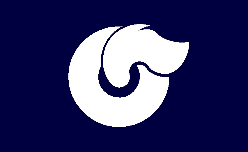 Flag of Shinto Gunma